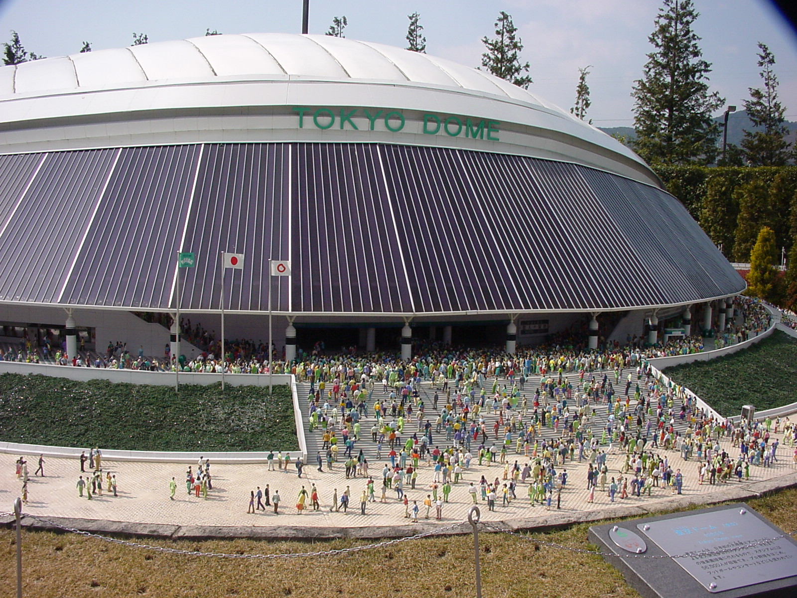 1:25 scale Miniature Tokyo Dome at Tobu World Square